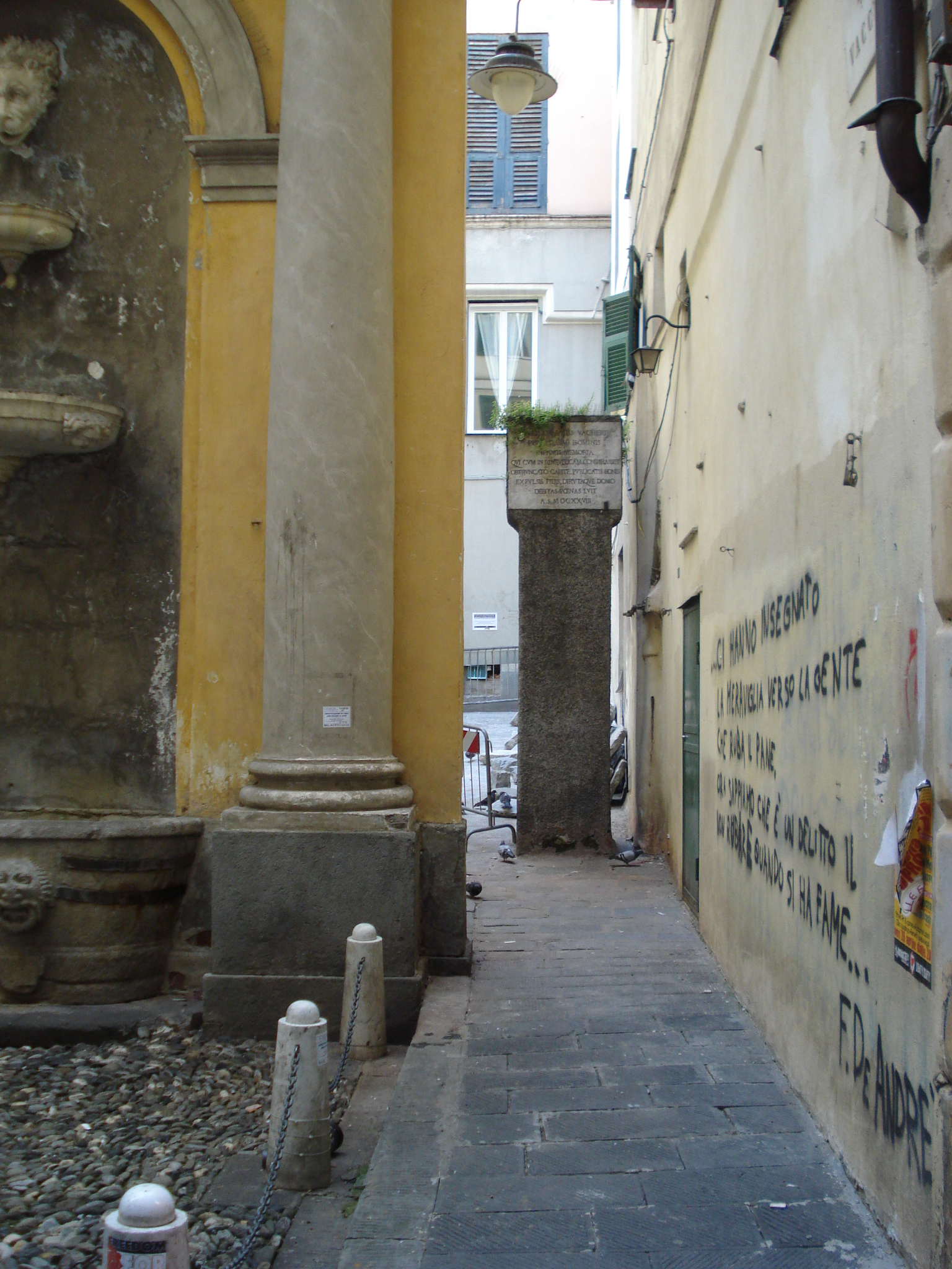 The column of infamy in Genova